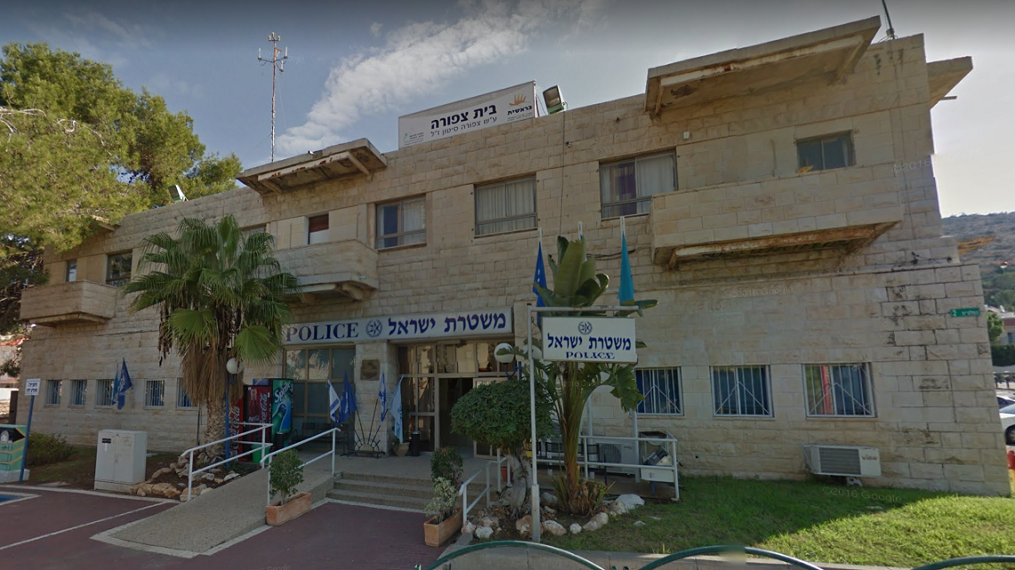 The Tirat Carmel Policy Station is occupying a house that was originally belonged to town of Al-Tira's Muhtar's (village head). The house was completed in early 1948, but in July 1948 the town was occupied by the Israeli army and depopulated. The building became the property of the Sate of Israel Custodian of Absentees' Property, and shortly afterwards become a police station ever since.